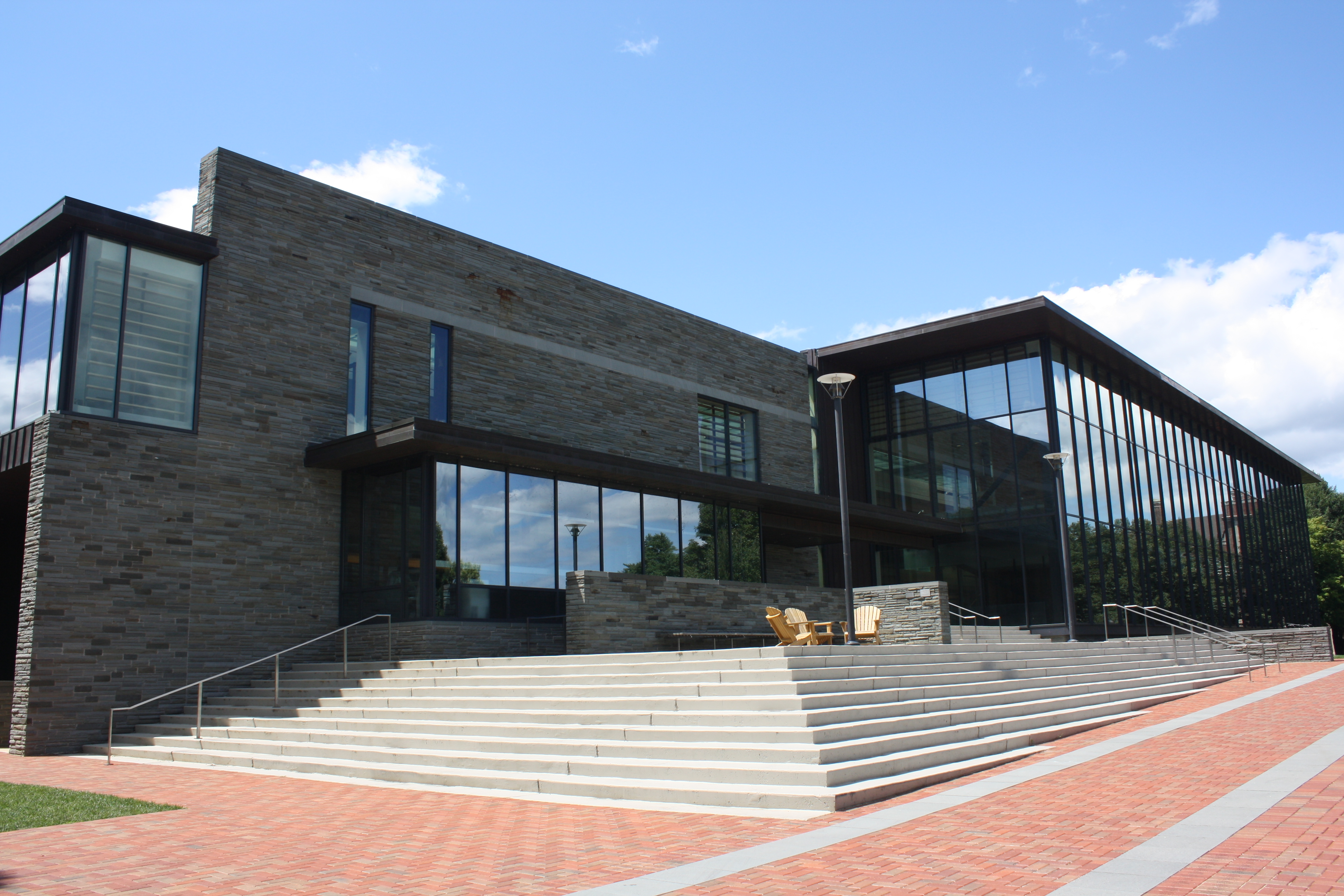 Lafayette College, Skillman Library, College Hill, Easton, PA.